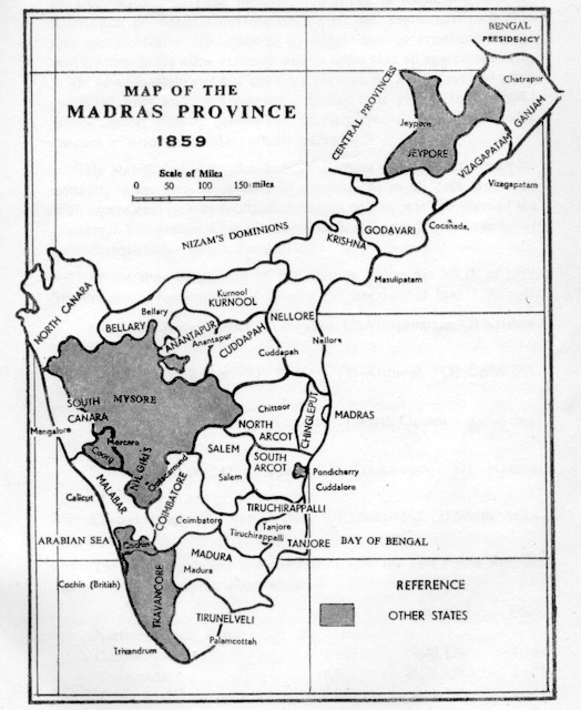 Nineteenth-century map. Origins unknown. As far as this researcher can tell, North Canara district, shown here as a district of Madras Province, was in fact a district of Bombay Province.